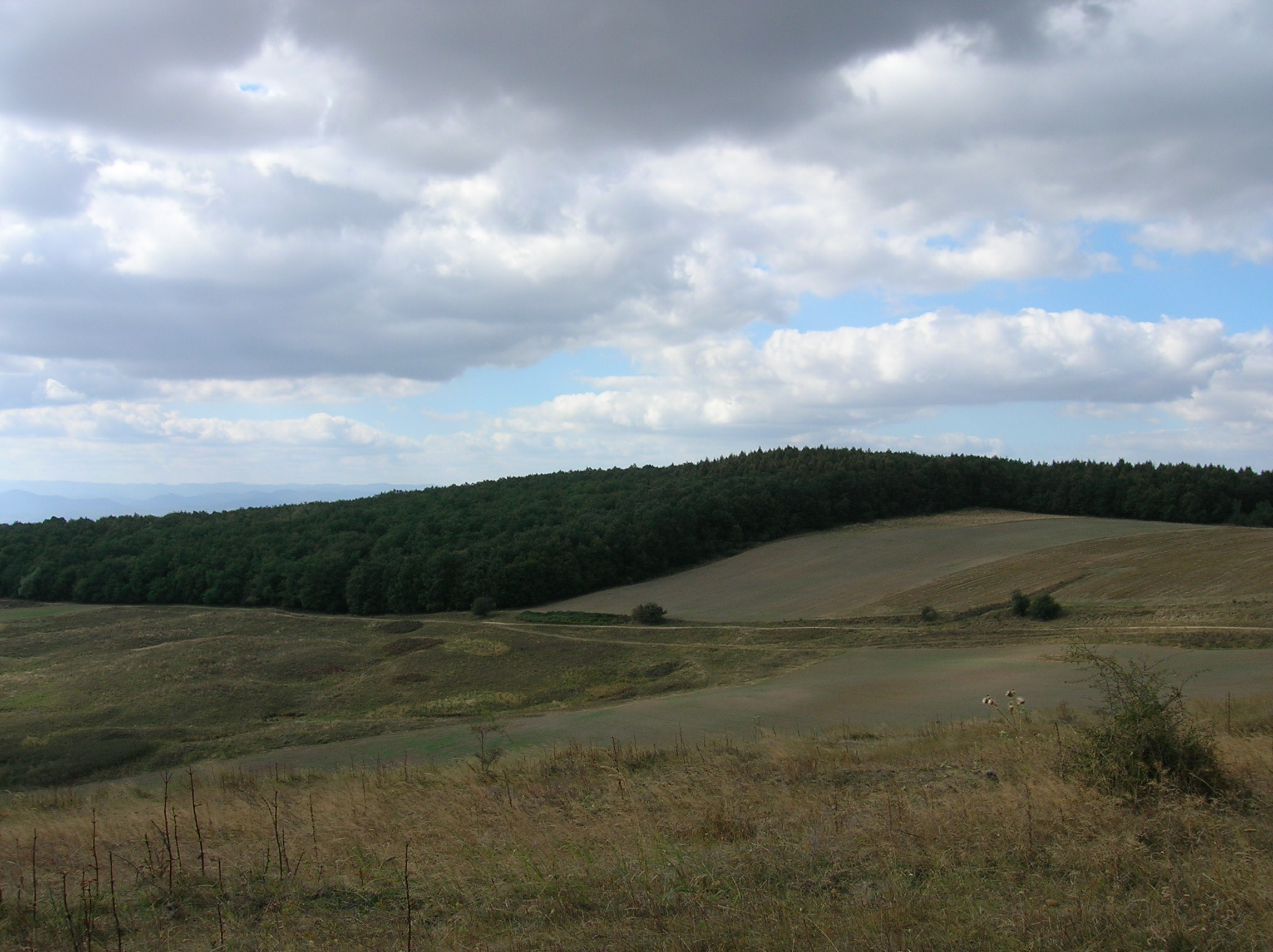 Runc Forest (Nature Reserve), Neamț and Bacău counties, Romania